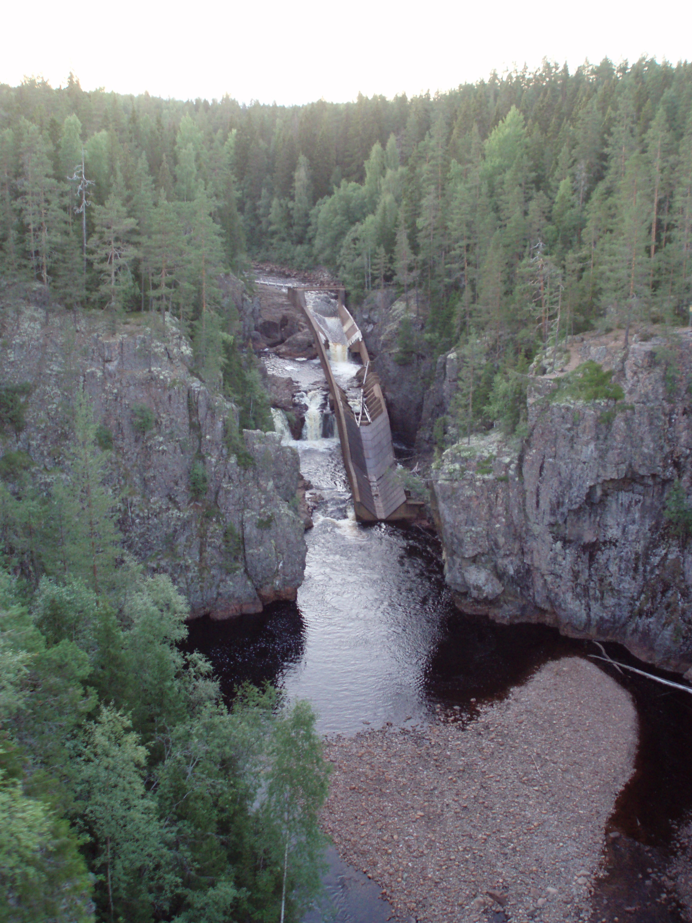 Storstupet - Ämån river, Orsa municipality, Sweden. Photo taken from Inlandsbanan railway bride in aug. 2006. Photgrapher - User:Cucumber.